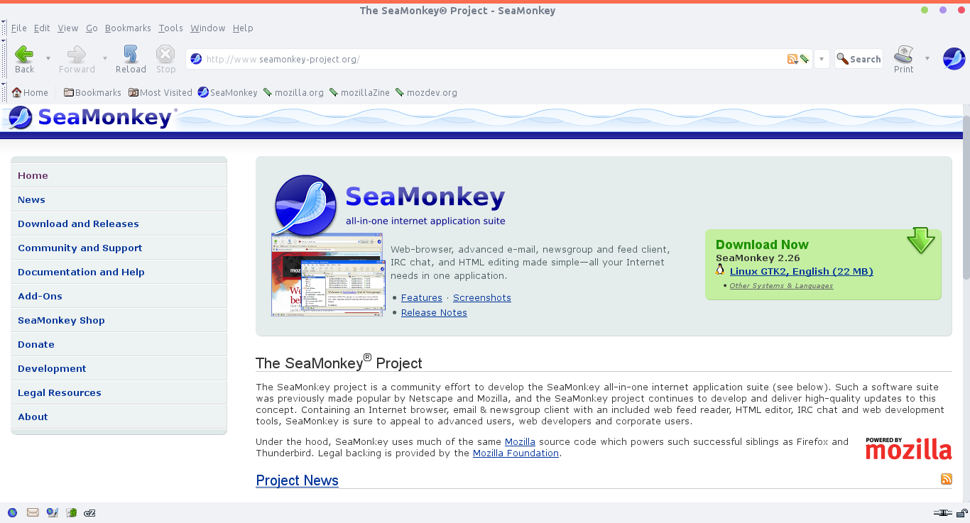 SeaMonkey 2.26 on Arch Linux